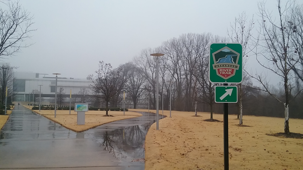 Far southeast corner of the river trail located southeast of the William J. Clinton National Library. Photo taken on January 27, 2018.